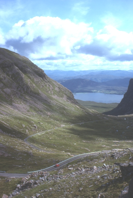 Bealach na Ba. The spectacular 'Pass of the Cattle' was until the late 20th century the only road linking Applecross with the rest of the country.